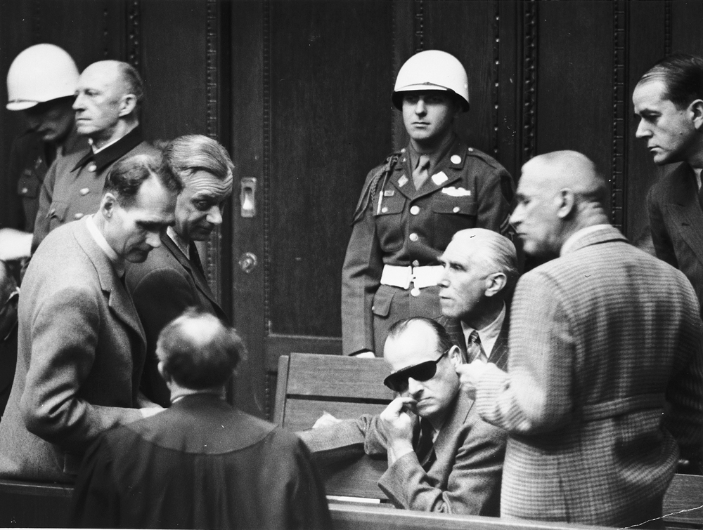 Defendants talk to each other and to their lawyer during a break at the International Military Tribunal in Nuremberg. Among those pictured from left to right are Rudolf Hess, Alfred Rosenberg, Hans Frank, Franz von Papen, Wilhelm Frick and Albert Speer. General Alfred Jodl is standing in back on the far left. Also pictured standing in the back, center is the donor, the American military policeman, Albert Rose.